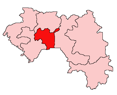 Map of Guinea showing Mamou Region. Created using the GIMP